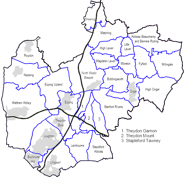 Civil Parishes in Epping Forest District, source 1960s OS maps, Open Street Map.